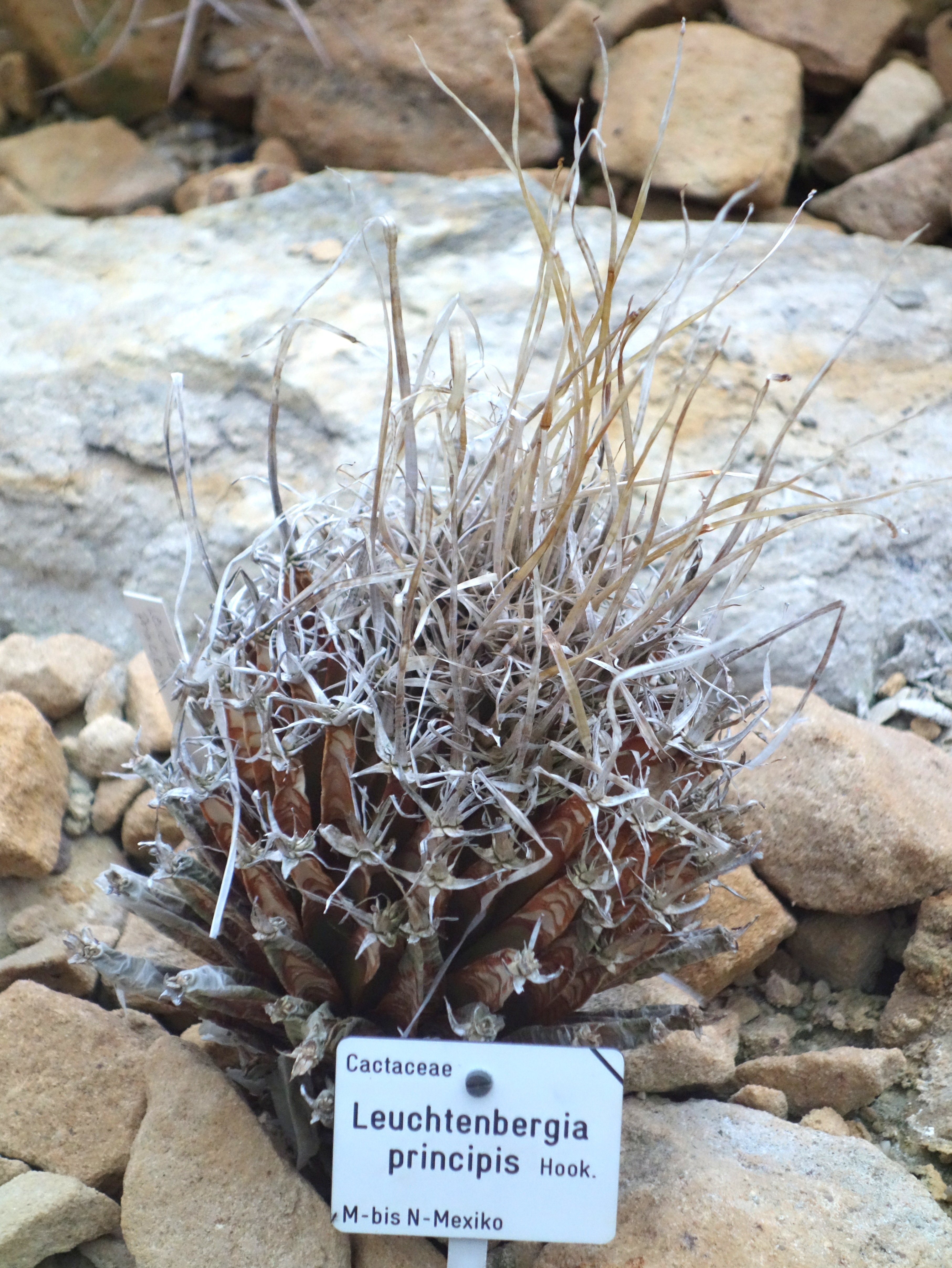 Botanical specimen in the Botanischer Garten, Dresden, Germany.